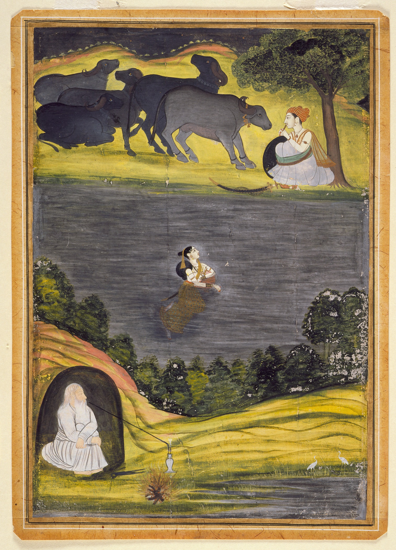 India, Uttar Pradesh, Awadh, Lucknow or Farrukhabad, circa 1780 Drawings; watercolors Opaque watercolor and gold on paper Gift of the Felix and Helen Juda Foundation (M.72.2.1) South and Southeast Asian Art